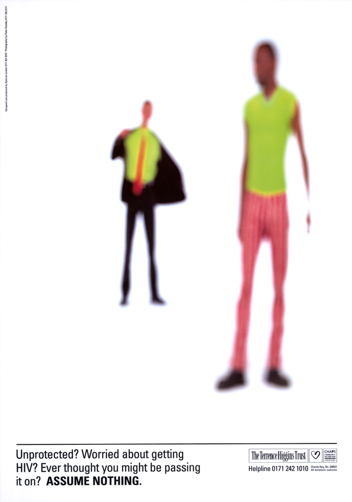 Photography for HIV Campaign Aids Awareness Campaign Assume Nothing, it can also be seen at